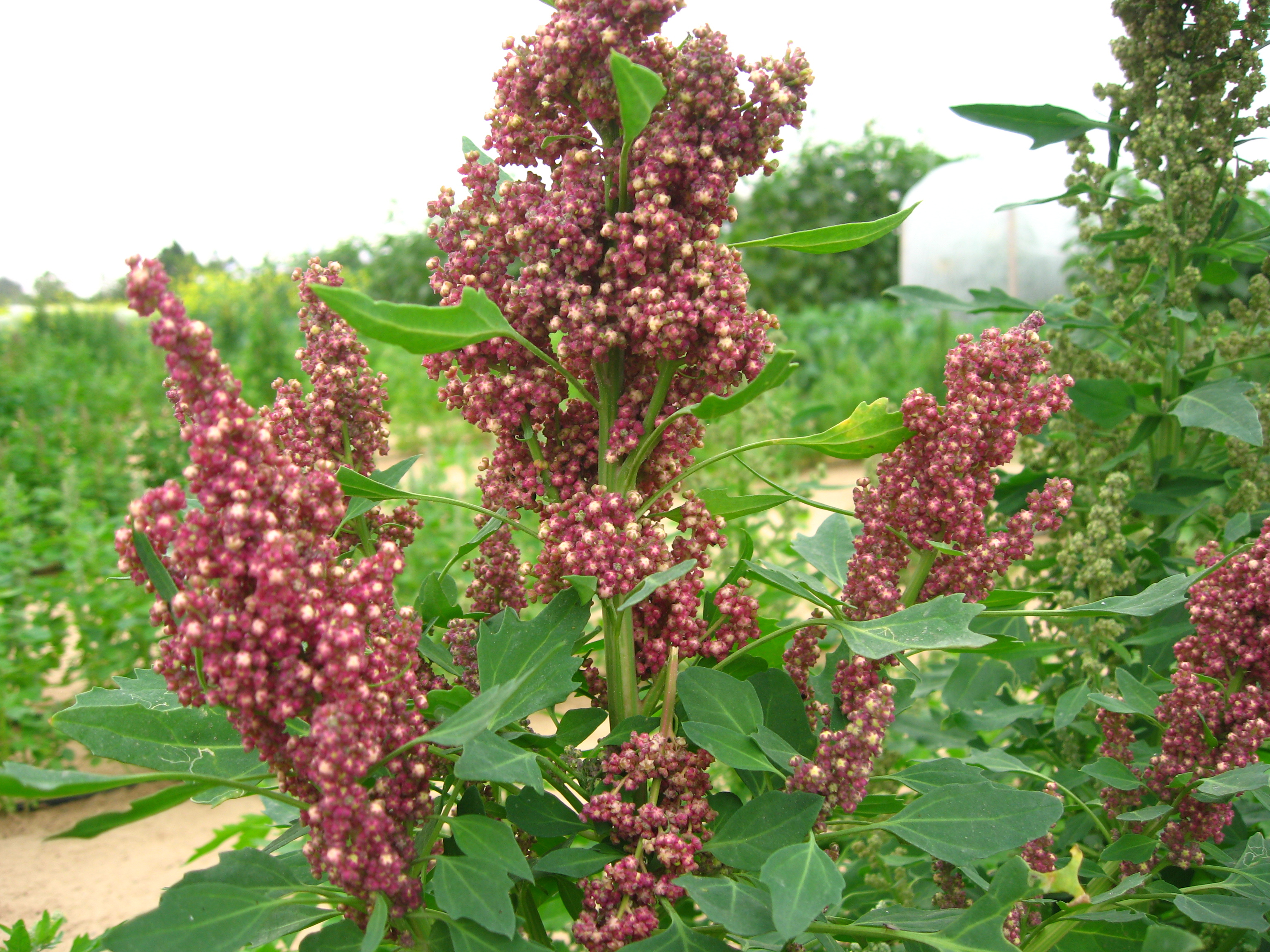 Quinoa Chenopodium quinoa